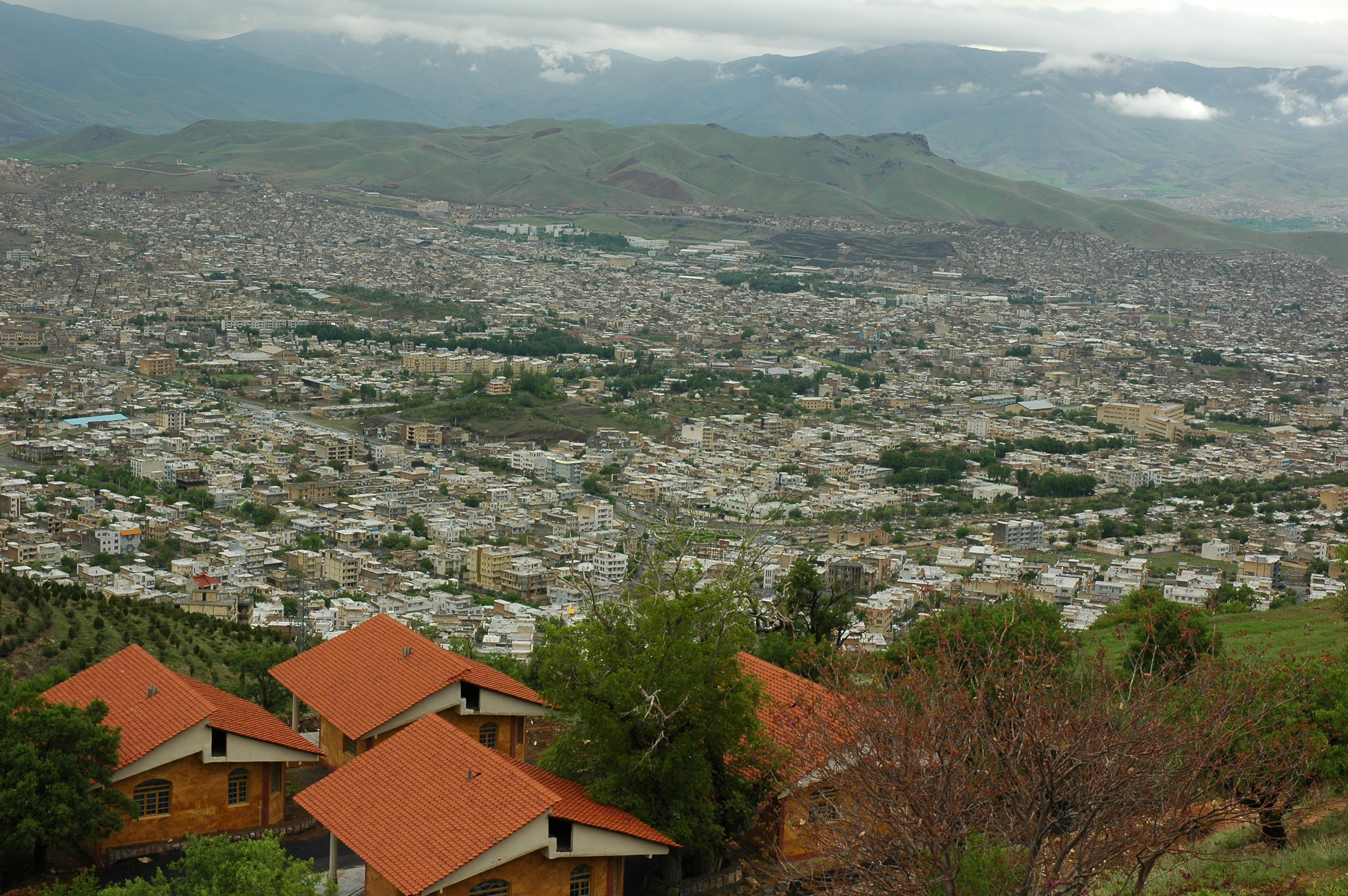 A view of Sanandaj, one of the largest cities in Iranian Kurdistan in May 2006. Photo by Ebrahim Badakhshan. Free to use, as Stated by uploader.